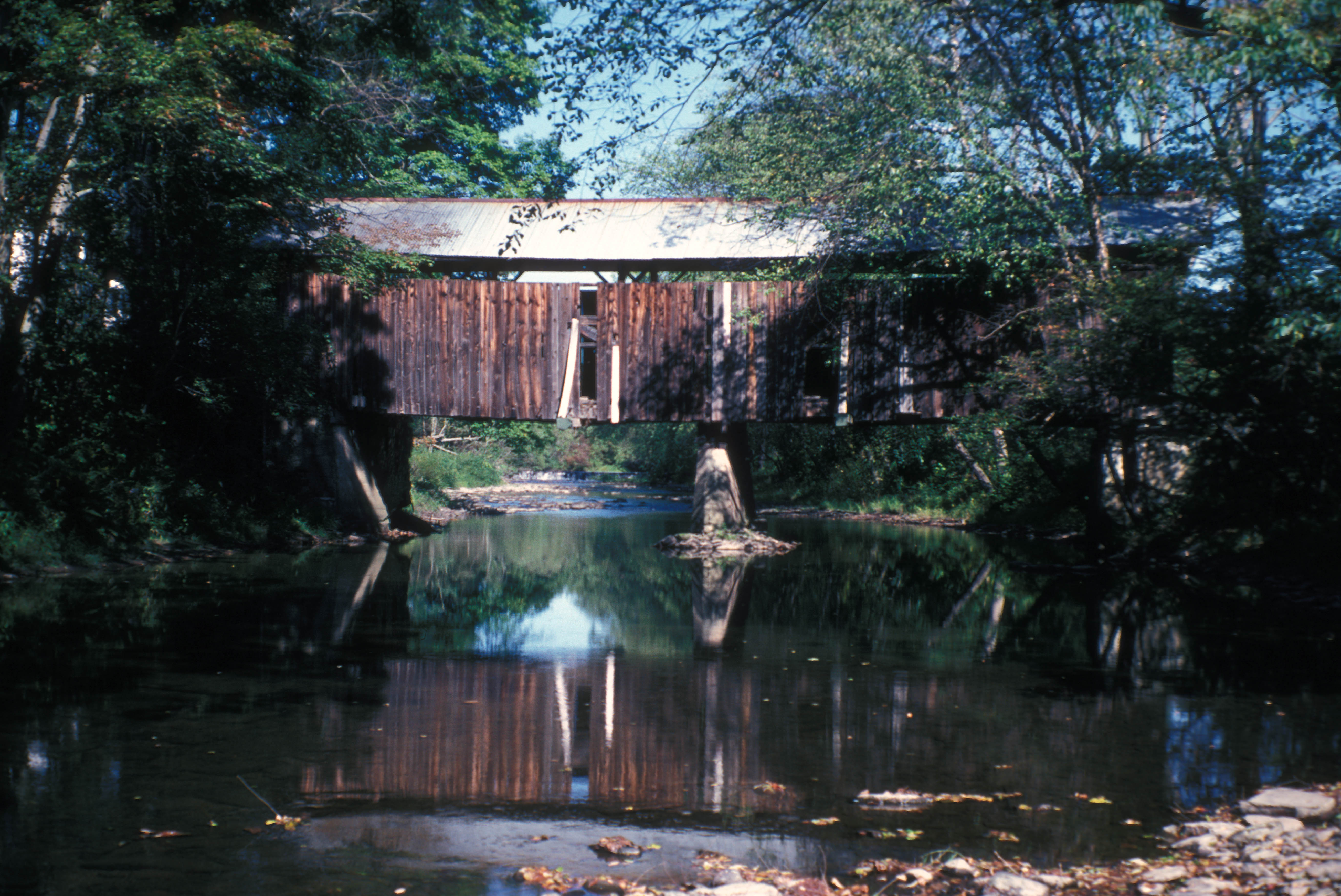 BITTENBENDER Covered Bridge OVER HUNTINGDON CREEK in Luzerne County, Pennsylvania; 76’ QUEEN Post truss